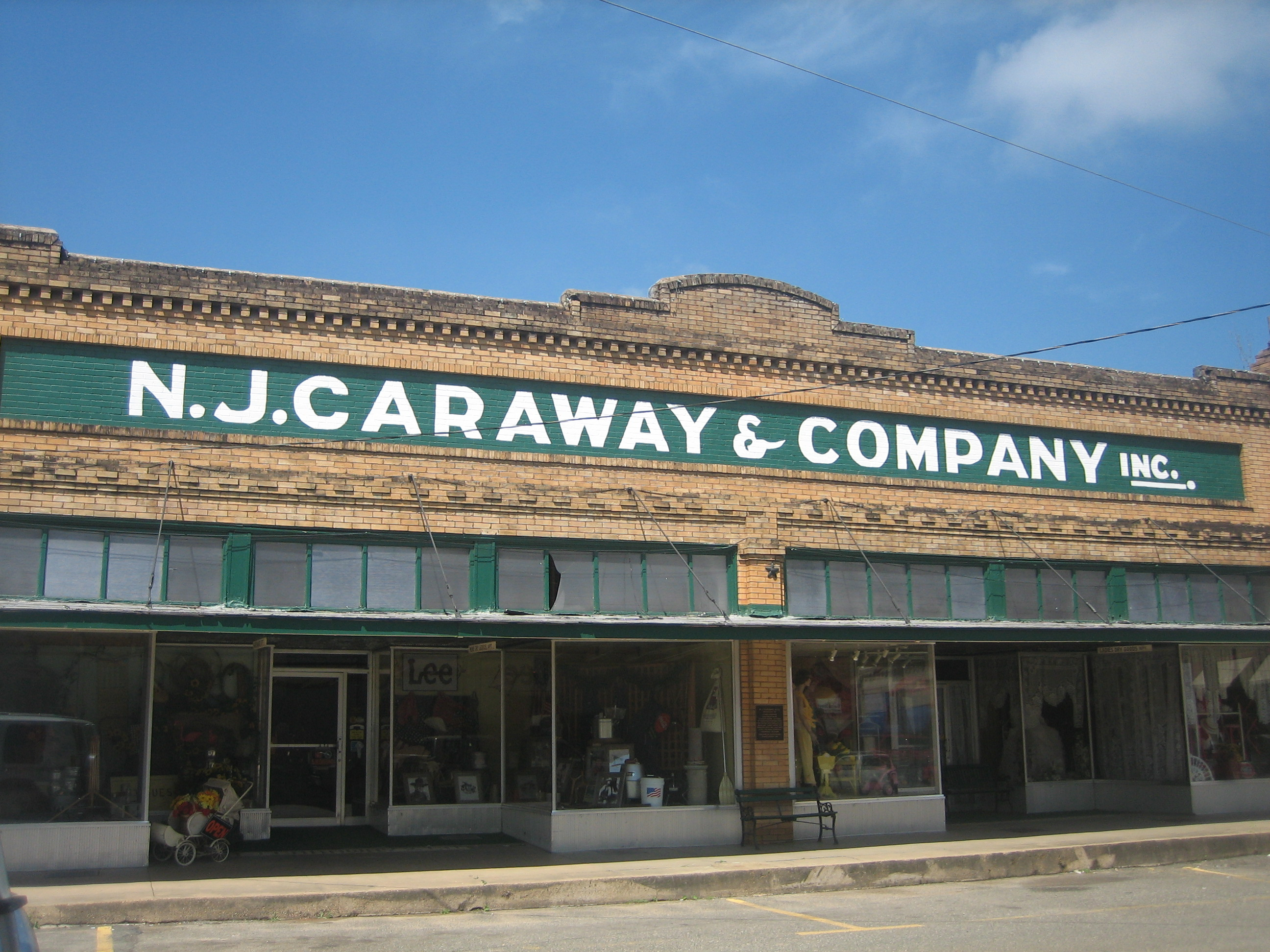 I took photo on May 27, 2009.Billy Hathorn (talk) 15:37, 31 May 2009 (UTC)